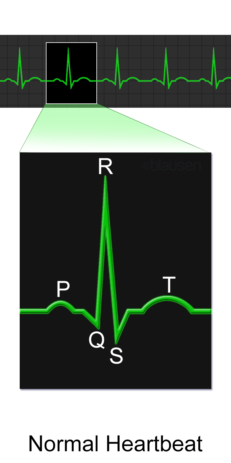 Electrocardiogram (EKG) depicting normal heartbeat. See a full animation of this medical topic.